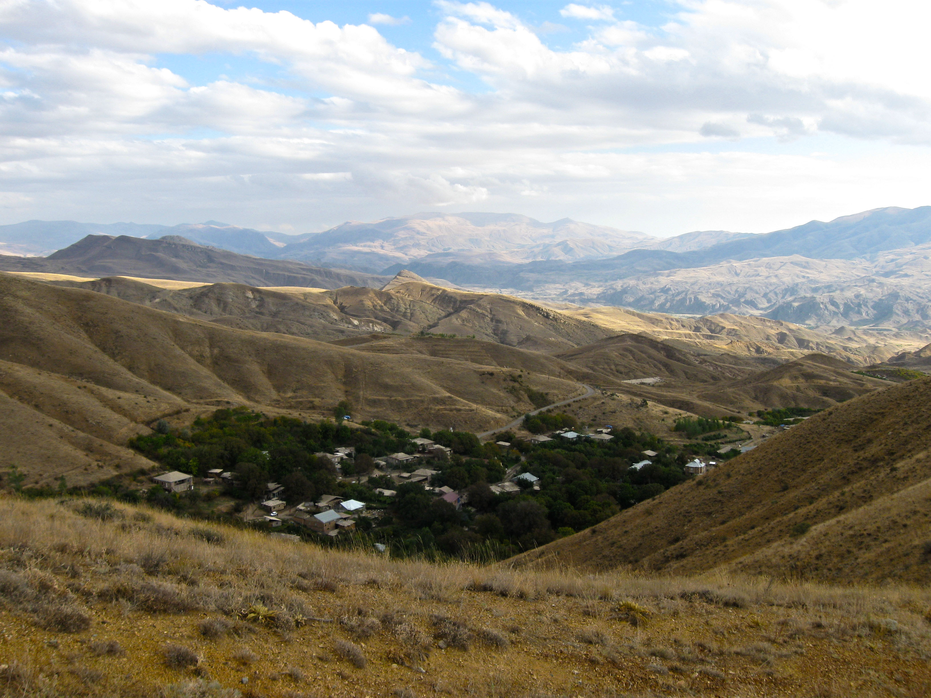 Vernashen village in the Vayots Dzor Province of Armenia